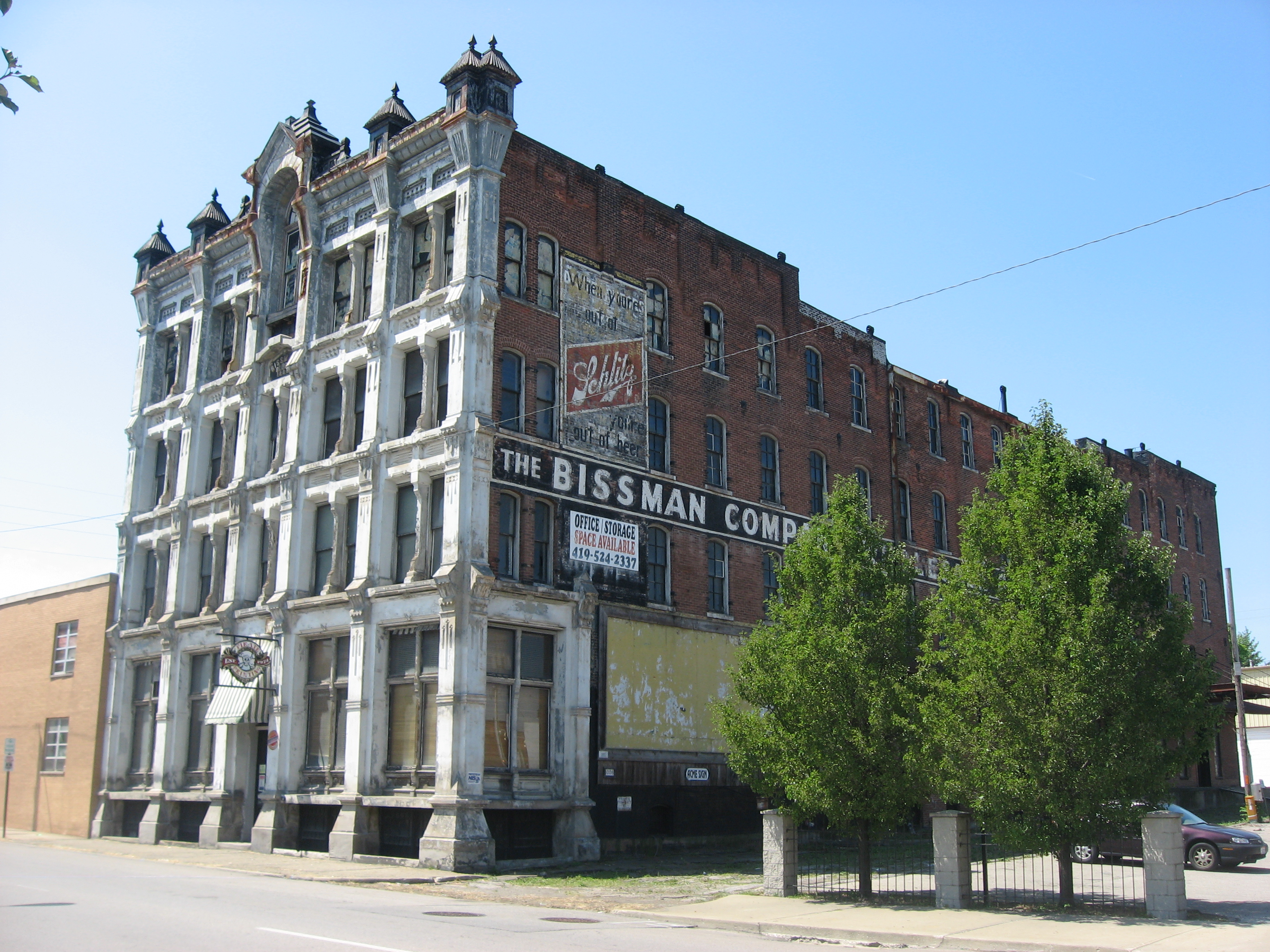 Front and northern side of the Bissman Block, located at 193 N. Main Street (State Route 13) in Mansfield, Ohio, United States. Built in 1897, it is listed on the National Register of Historic Places.